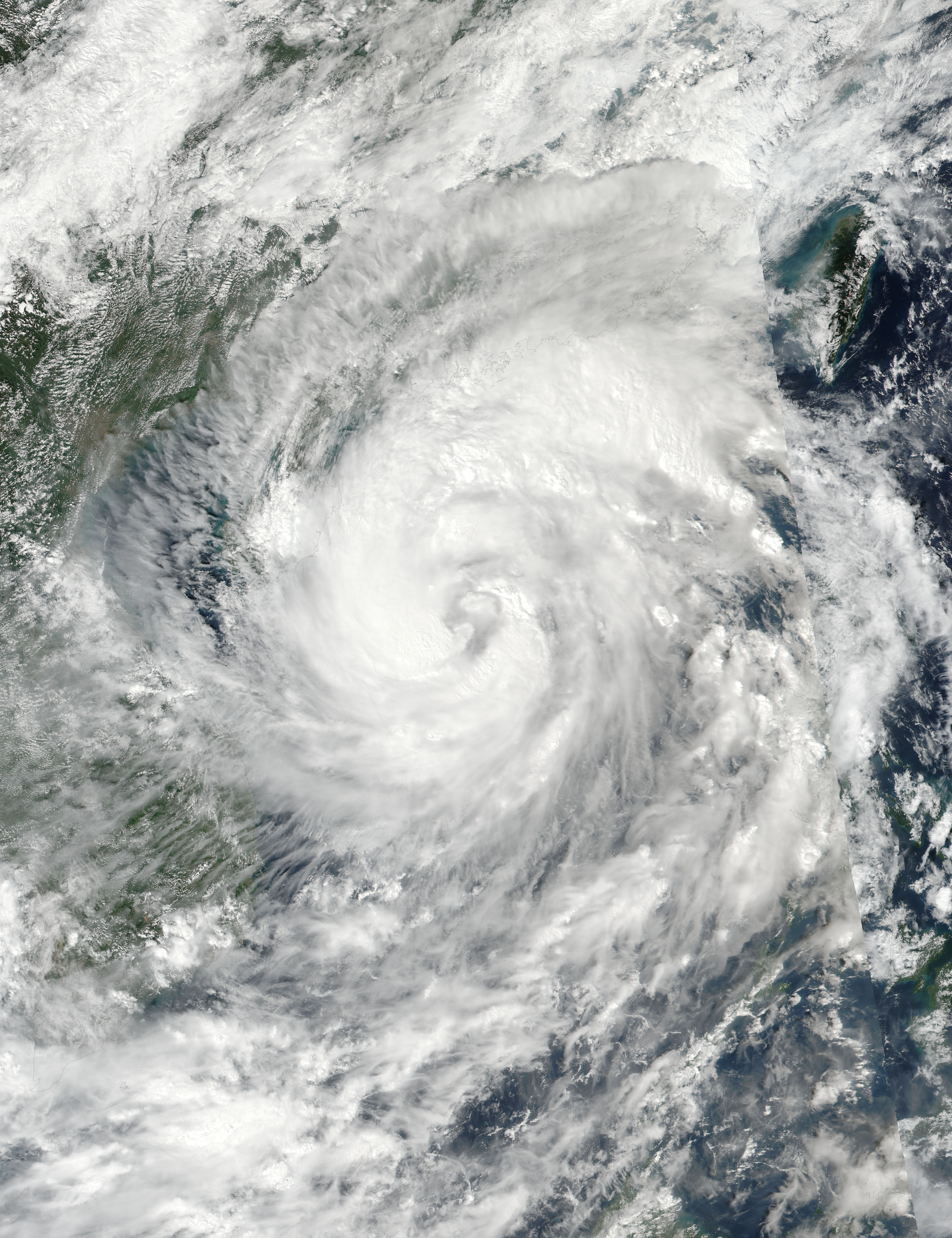 Typhoon Sarika (24W) approaching China